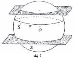 diagrams